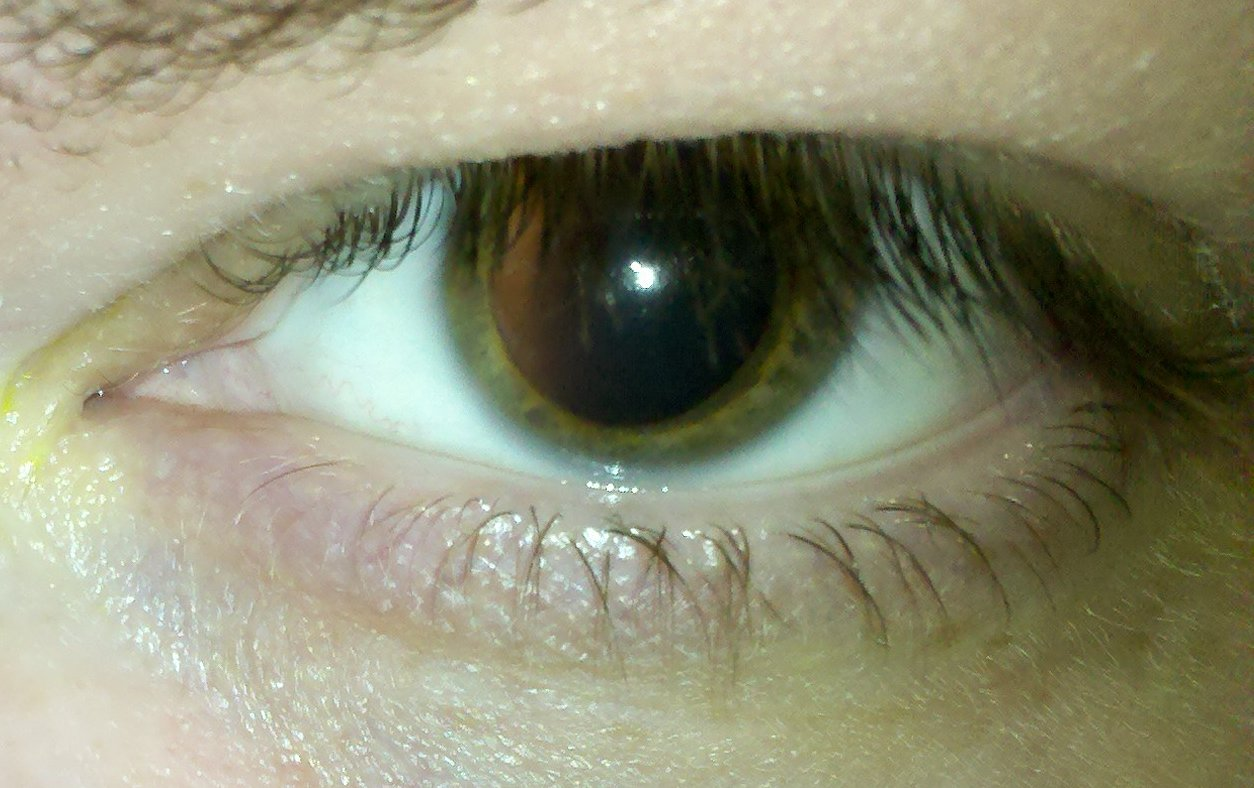 A human eye after the pupil was dilated using drops during an eye exam. Self-portrait by Ben Schumin.